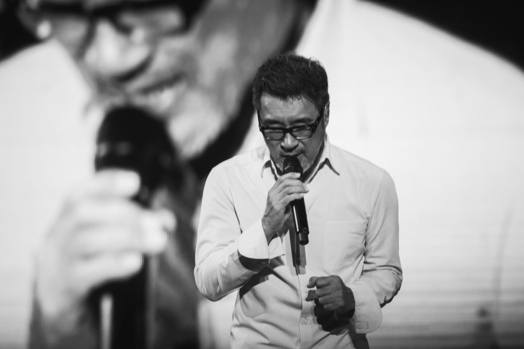 Jonathan Lee at the 2014 concert tour in Nanking